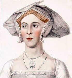 Detail of stipple engraving by Francesco Bartolozzi after a sketch by Hans Holbein the Younger of Lady Meutas, wife of Sir Peter Meutas (or Meutas). The Holbein original is in the collection of HM Queen Elizabeth II.